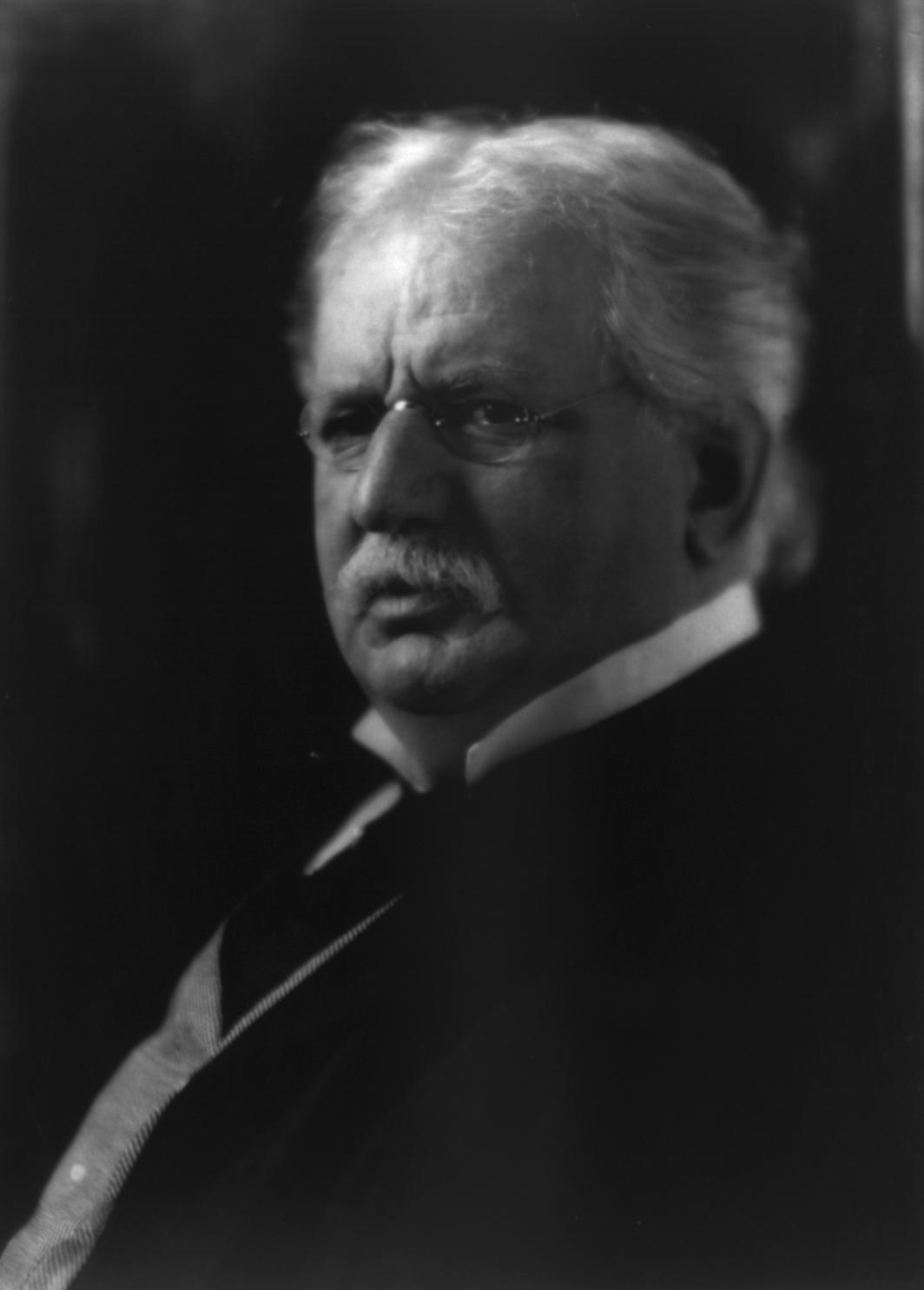 Theodore Newton Vail, 1845-1920, bust portrait, facing left